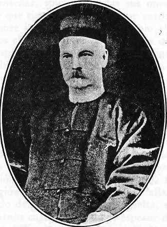 Fernando Sainz